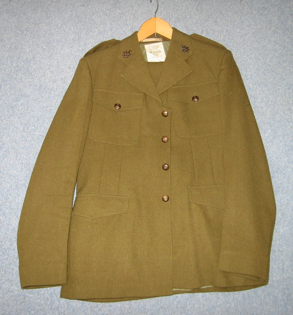 British Army No 2 Dress